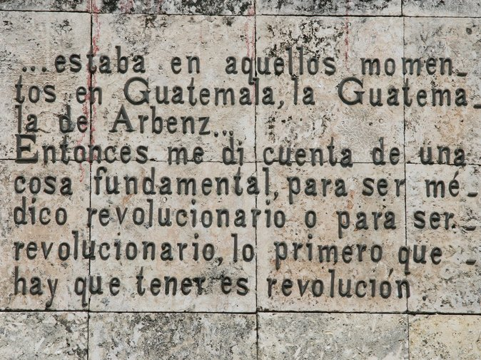 Che Guevara's phrase. Santa Clara Memorial. Cuba. Edited from original picture (frag)